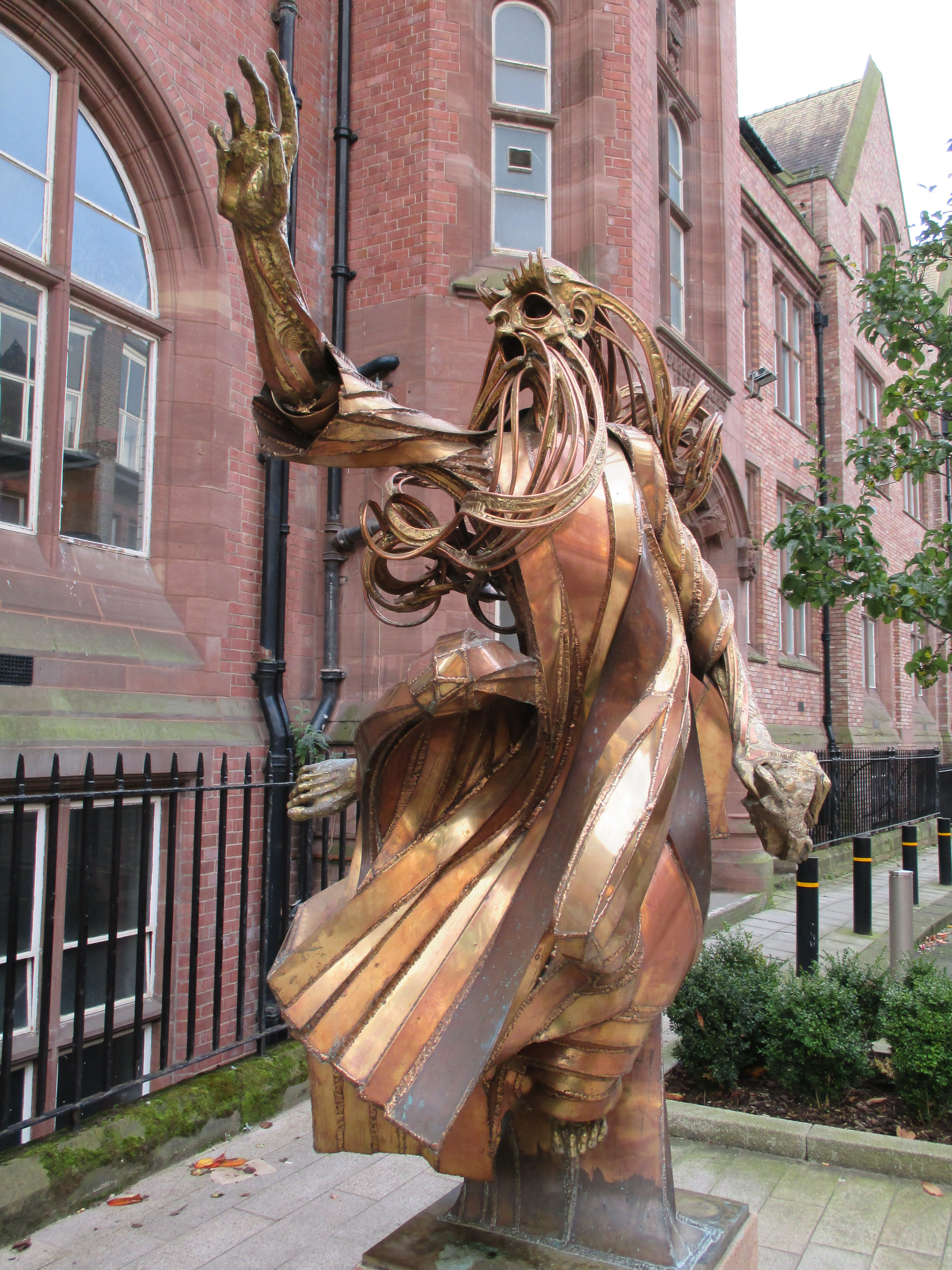 Sculpture near the Harrison Hughes Building, University of Liverpool.